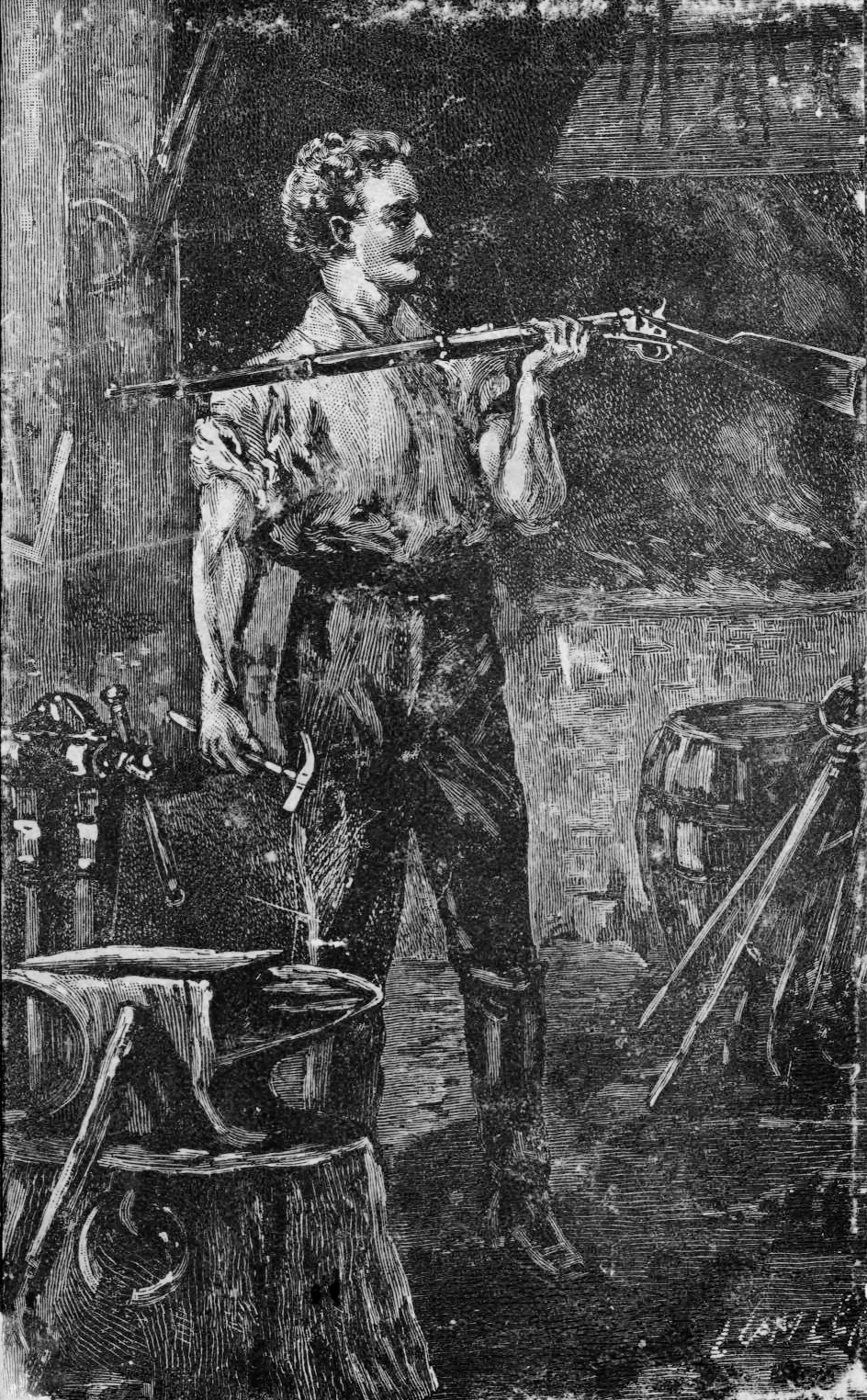 Cover for The Gunmaker of Moscow, Published by A. S. Wickwire Press, New York.